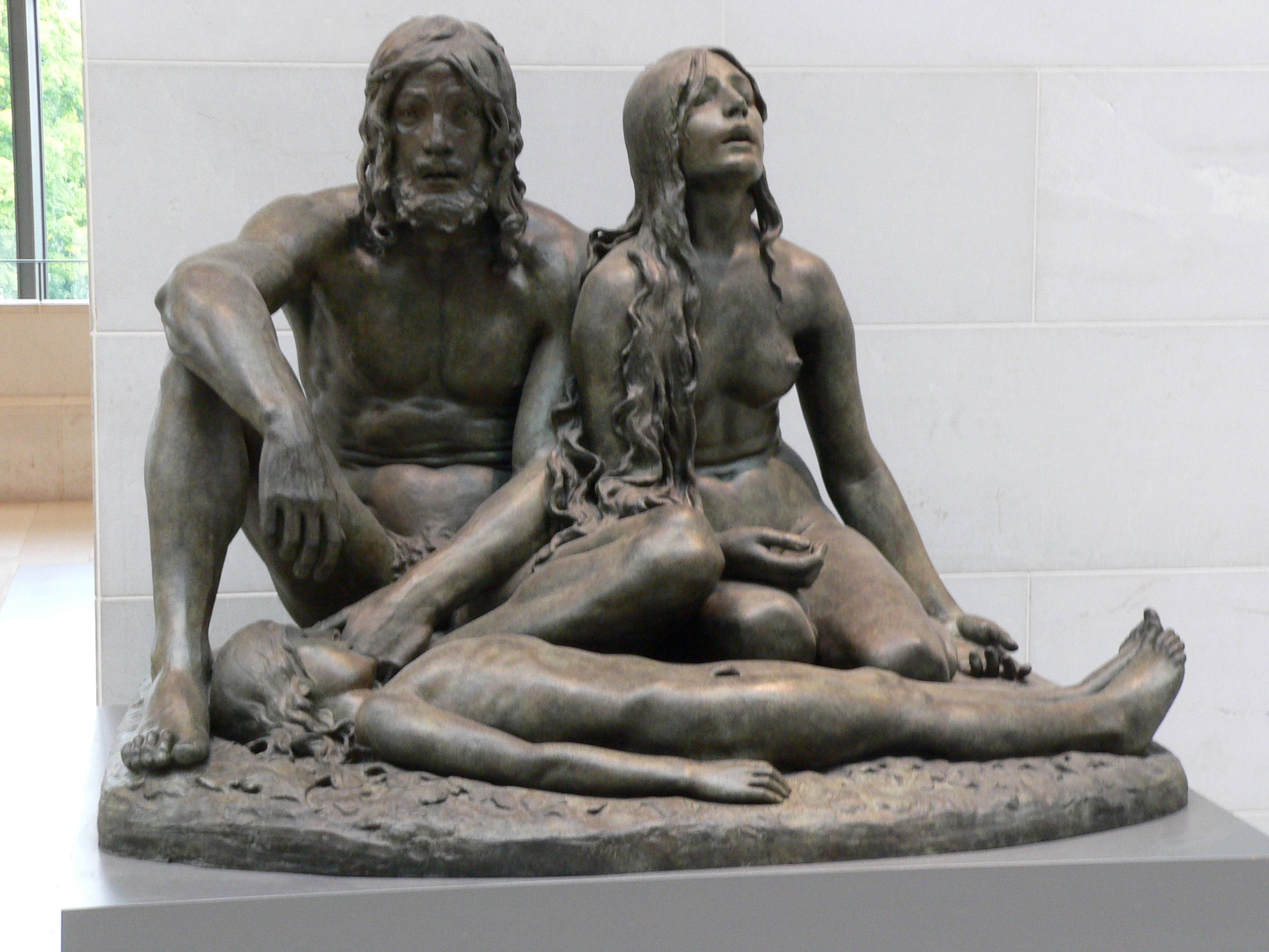 Adam and Eve with the Body of Abel (by Carl Johan Bonnesen, photographed at the Statens Museum for Kunst, Copenhagen, Denmark at 18-9-2005). Photograph by H.G.A. Prins.